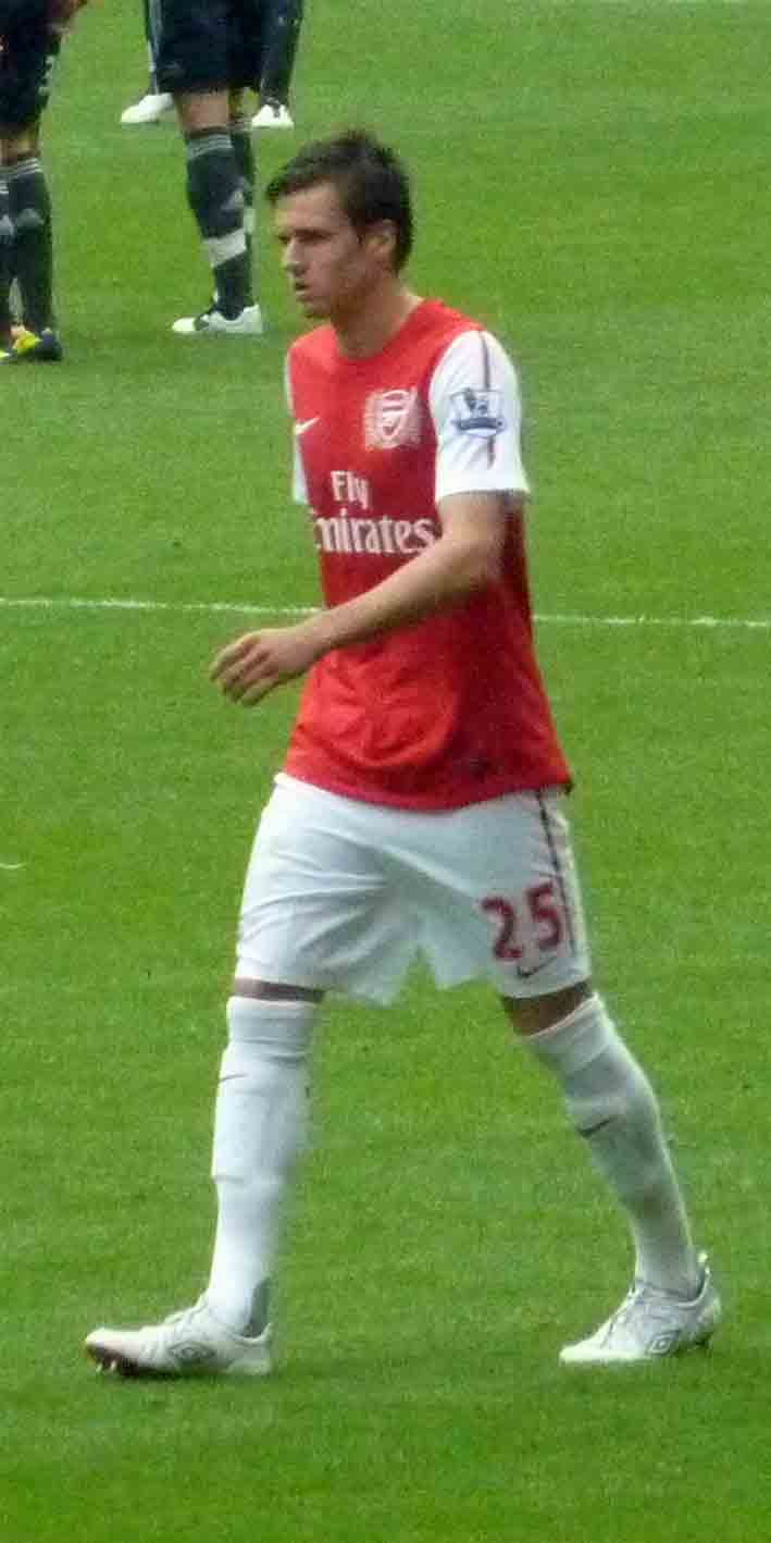 Carl Jenkinson of Arsenal F.C., before a match against Liverpool F.C.